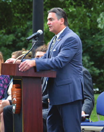 Mayor Domenic Sarno addresses a crowd at the Springfield Armory during a Naturalization Ceremony in 2014.